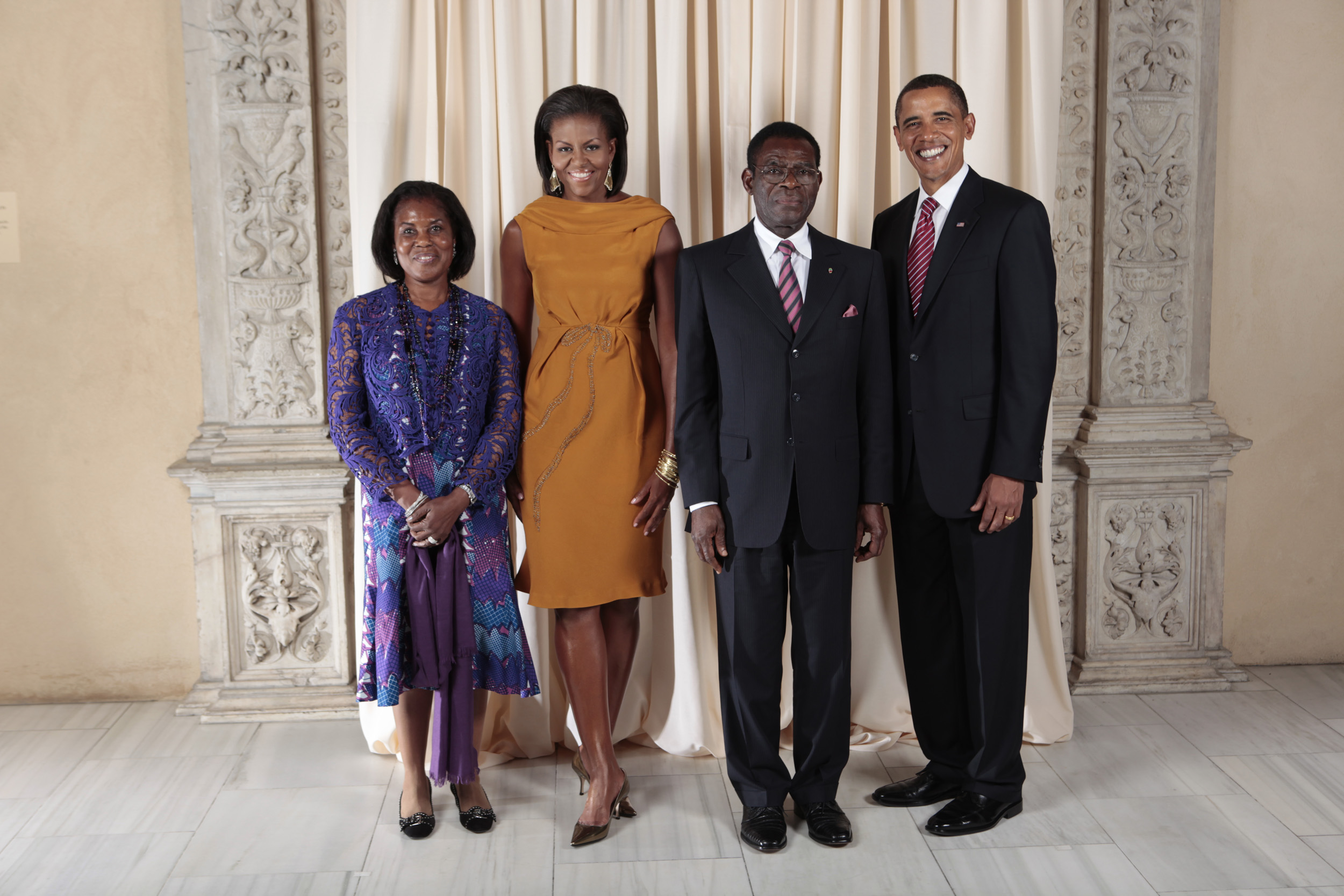 President Barack Obama and First Lady Michelle Obama pose for a photo during a reception at the Metropolitan Museum in New York with Teodoro Obiang Nguema Mbasogo, President of the Republic of Equatorial Guinea, and his wife, First Lady Constancia Mangue de Obiang.